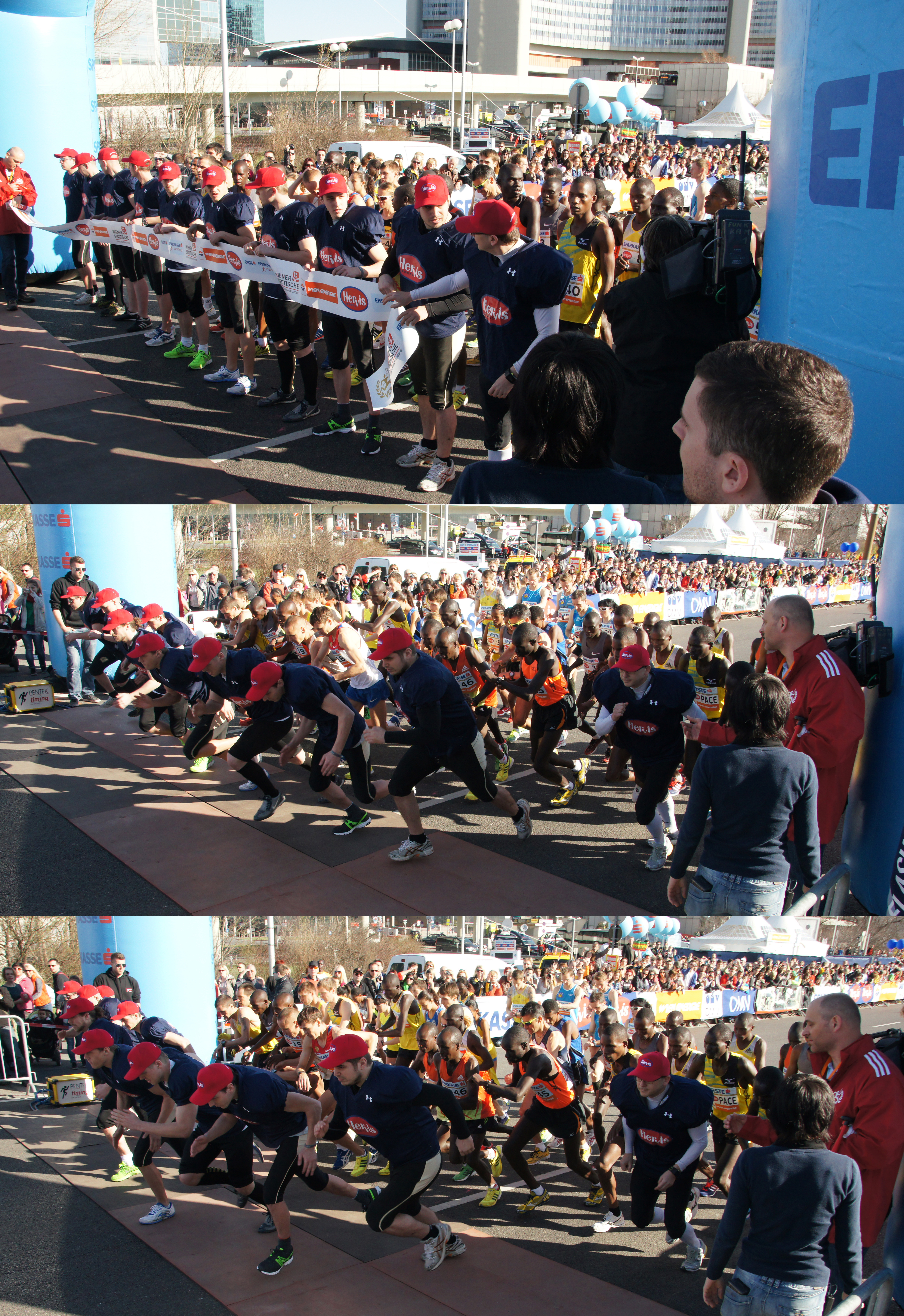 Vienna 2013-04-14 Vienna City Marathon 2 - top group starting sequence